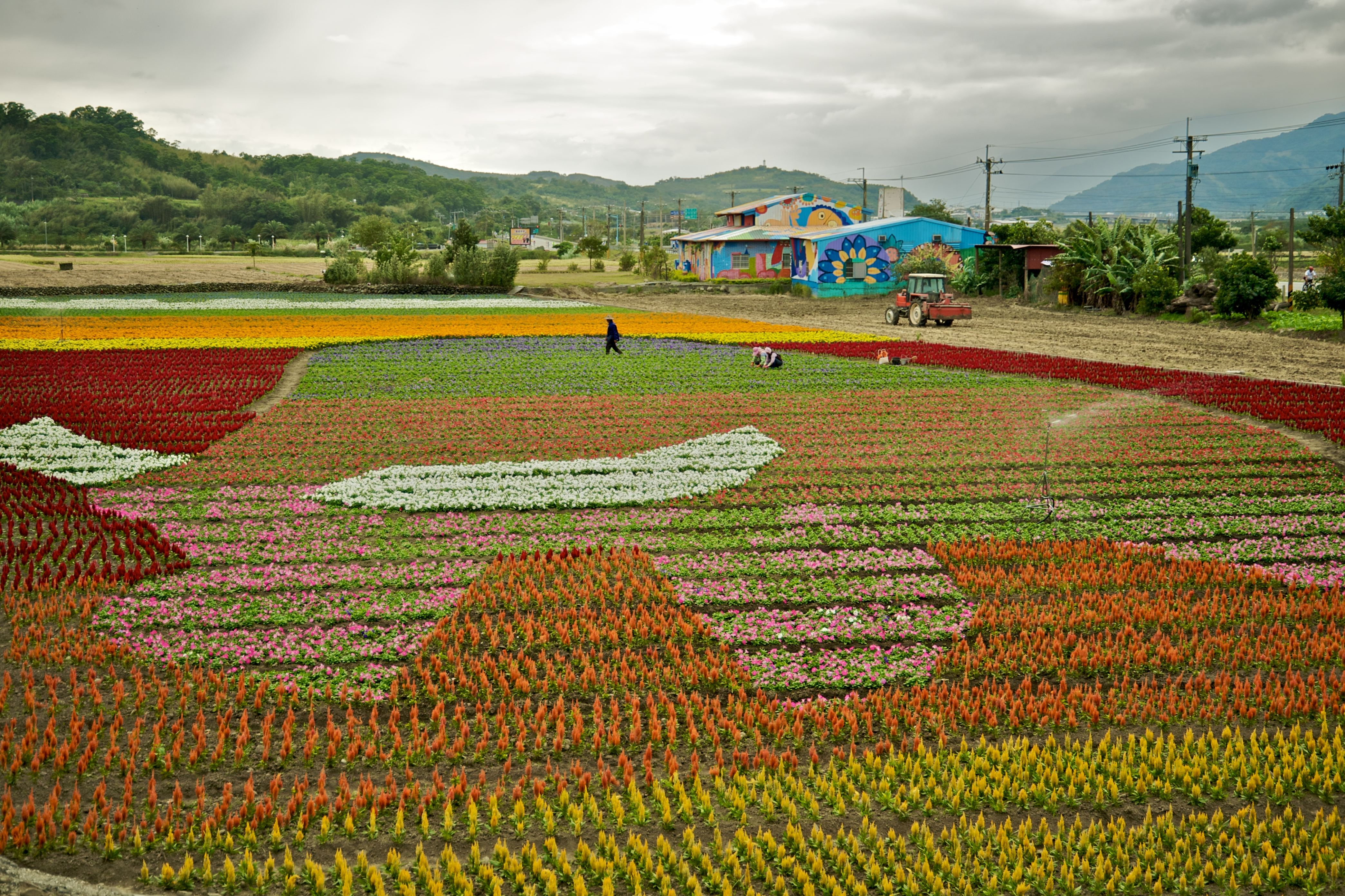 Farmers paint a picture of a water buffalo using flowers at FuLi Town by the Huatung Highway in Taiwan